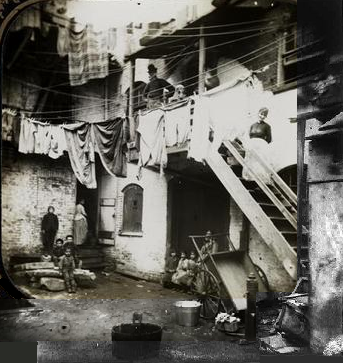 Jacob Riis photo, 1888-90 of rookery near Five Points, NY, as example of area squalor.